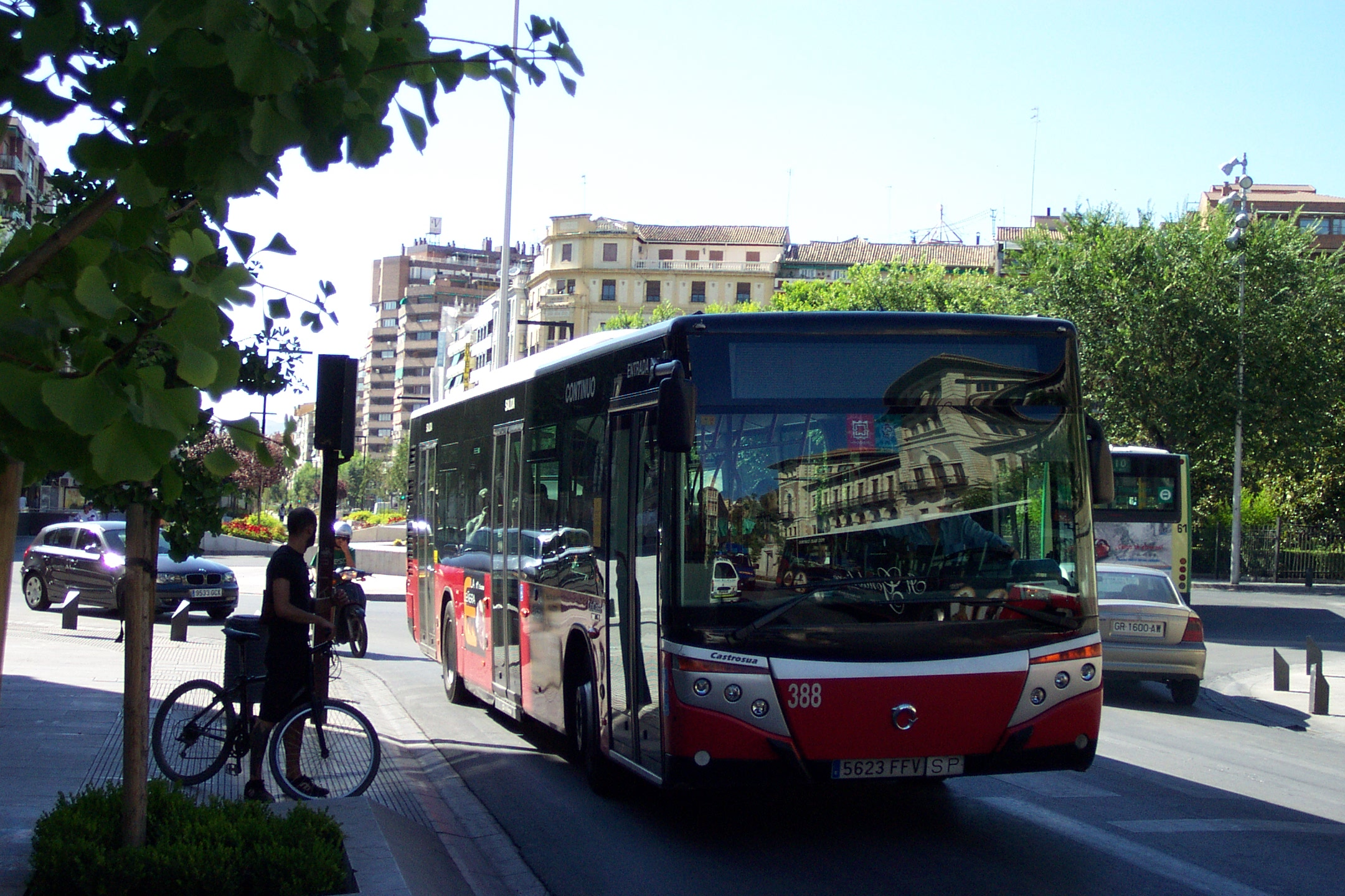 Transportation in Granada, Andalusia, Spain.